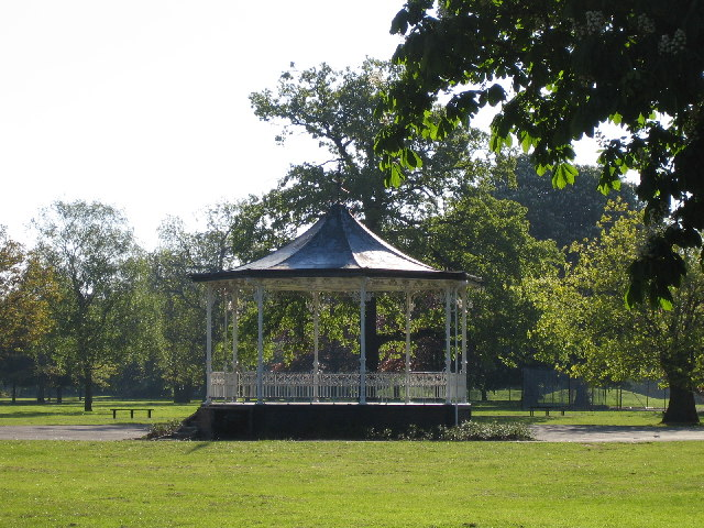 The Bandstand in Town Hall Park, Hayes. The bandstand is used each summer for concerts. The park and bandstand were featured in the film 'Bend it Like Beckham'